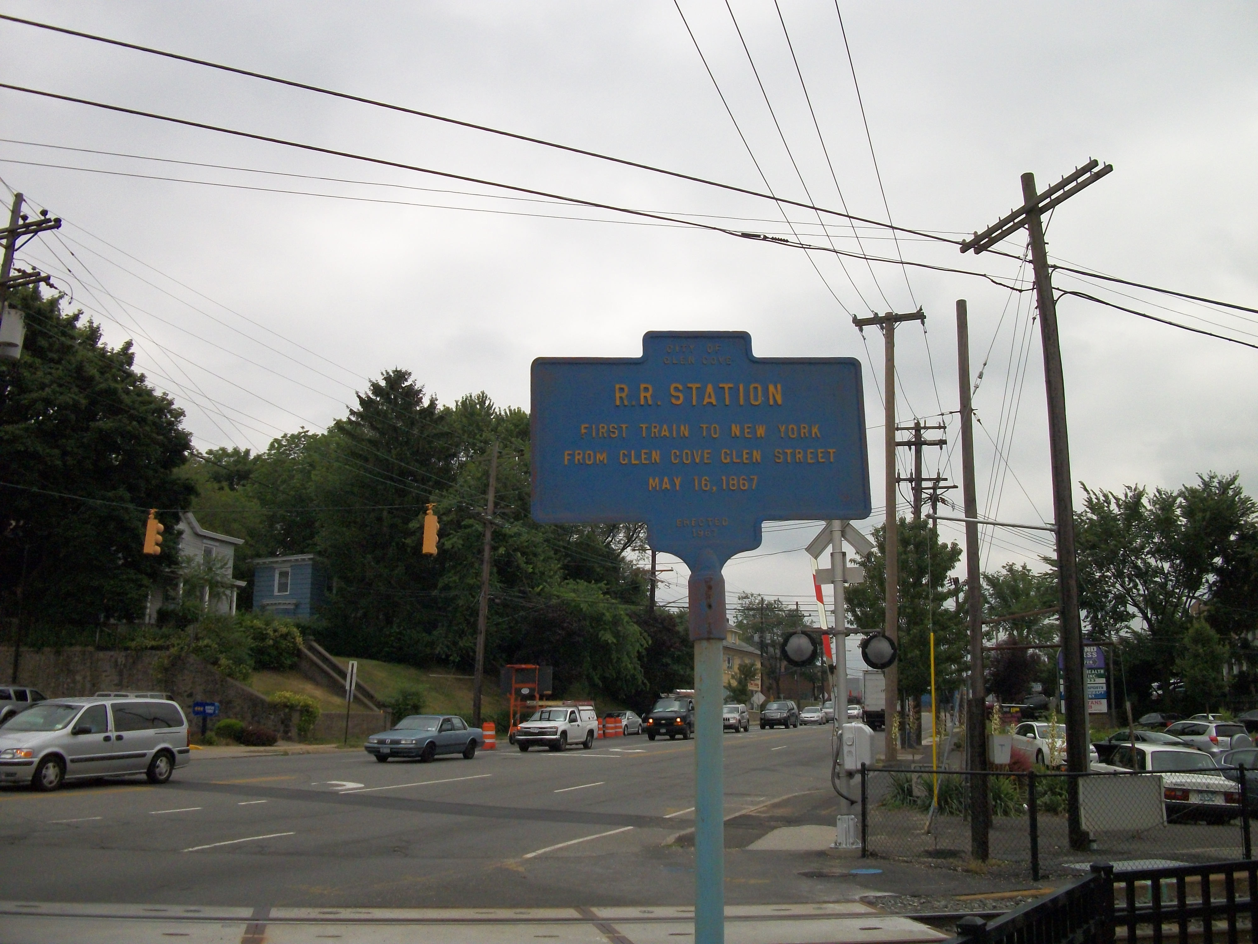 A New York State Historical Marker for Glen Street (LIRR station), the original LIRR station in Glen Cove, New York.